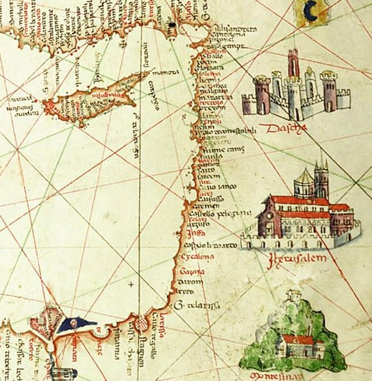 The east of 1489 Portolan Chart. From the Black Sea at the top to the Red Sea at the bottom.